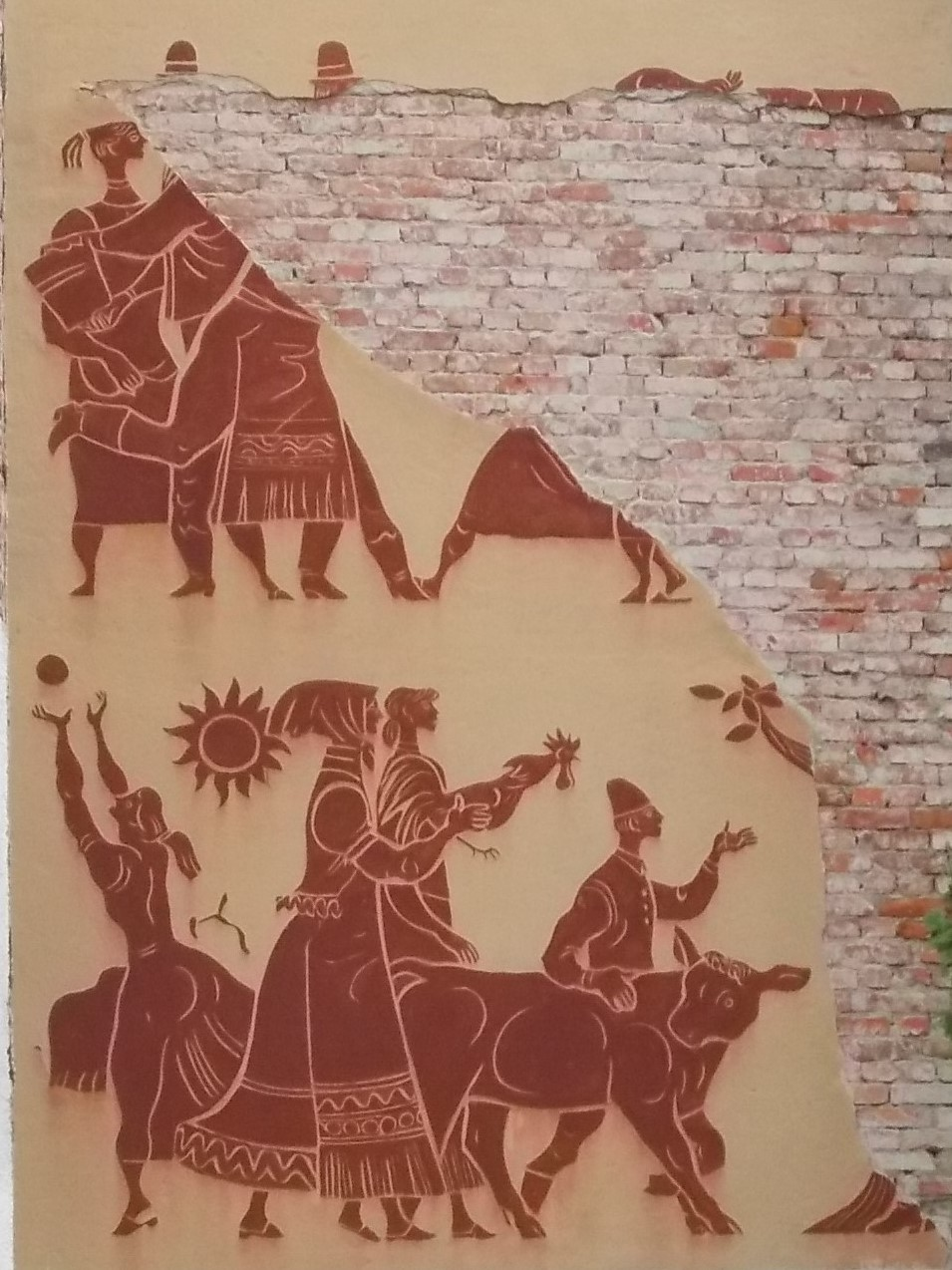 Bárdos Lajos elementary school facade detail. Sgrafitto by György Konecsni (damaged, 1959?). - Hősök tere (Heroes' square), Mátyás király street, Mezőkövesd, Borsod-Abaúj-Zemplén County, Hungary.